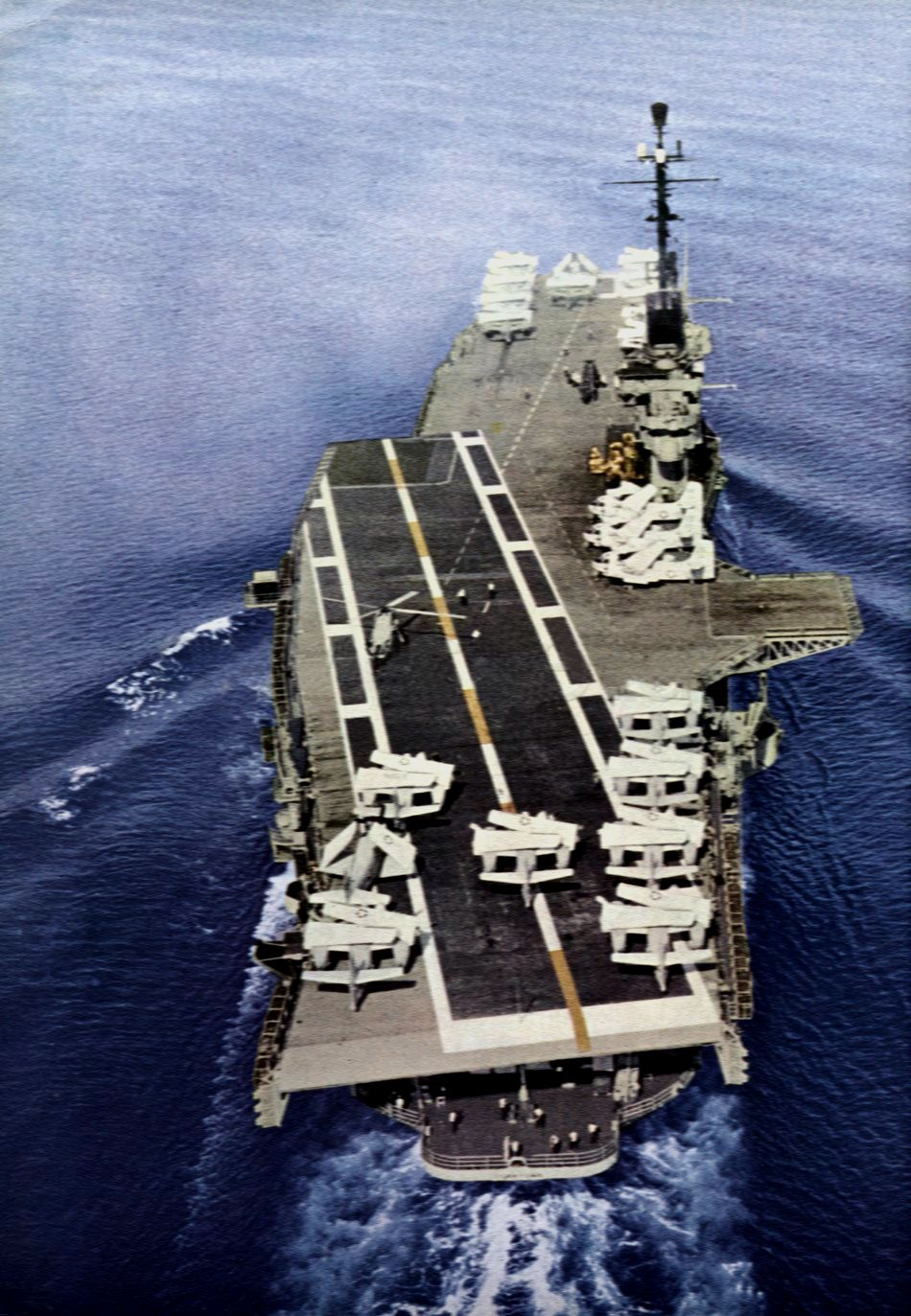 Aft view of the U.S. Navy aircraft carrier USS Yorktown (CVS-10) during her deployment to the Western Pacific from January to July 1960.